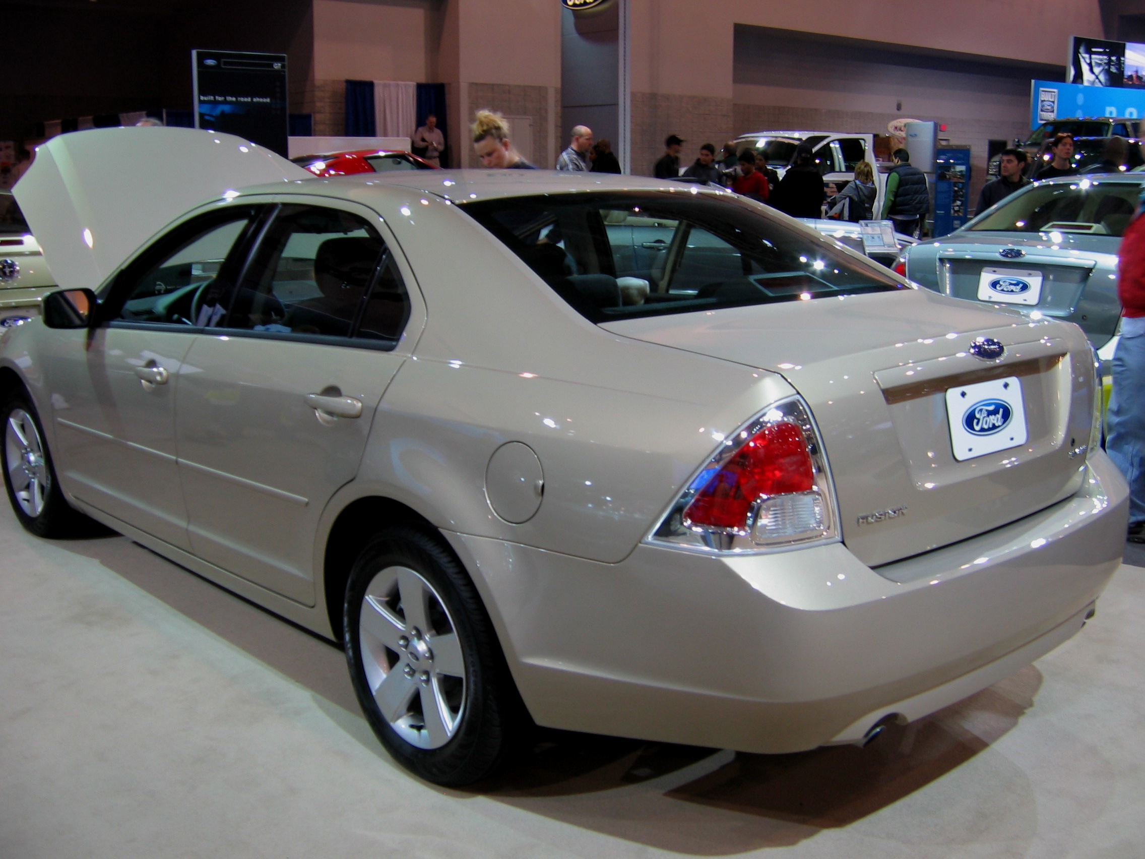 Ford Fusion, at the 2006 Washington Auto Show. Photo by Kmf164 taken on January 27, 2006.